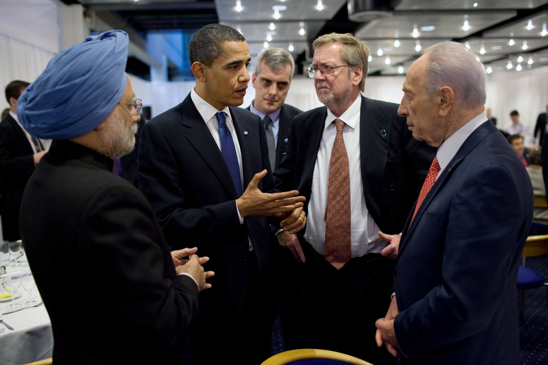 President Barack Obama talks Israeli President Shimon Peres (right), Indian Prime Minister Manmohan Singh, and Danish Foreign Minister Per Stig Møller during a lunch hosted by Danish Prime Minister Lars Løkke Rasmussen at the United Nations Climate Change Conference in Copenhagen.